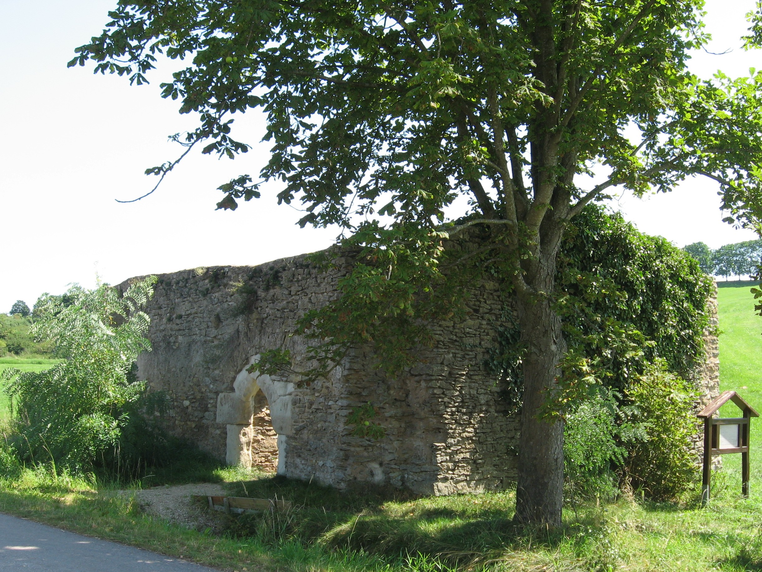 "Heilig-Kreuz-Kapelle", a chapel in Pfofeld (Bavaria, Germany) from northwest